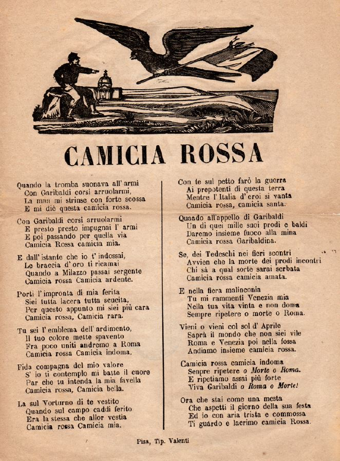 Song of volunteers of Giuseppe Garibaldi